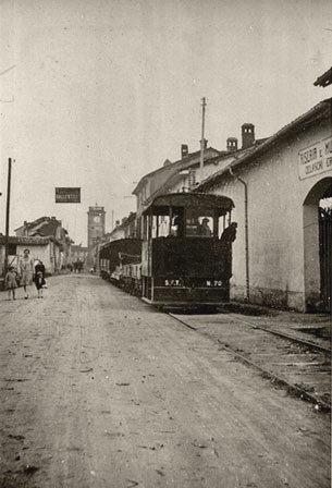 Tromello, 1920s